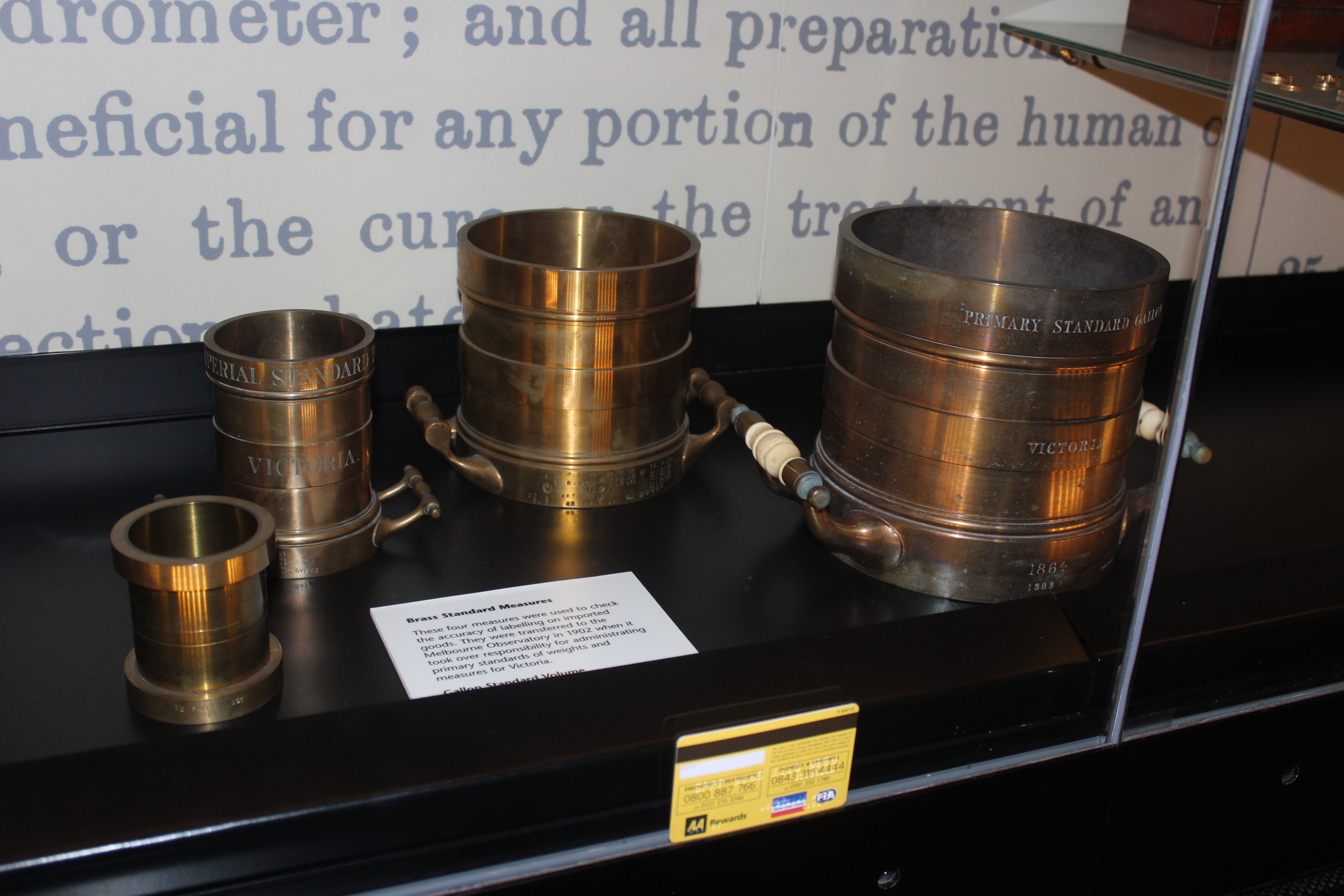 Set of standard measures used by customs and excise in the colony of Victoria. They are currently on display at the Immigration Museum, Melbourne, Australia. The museum occupies to old Customs House where these measures were originally in use. Their sizes can be gauged from the credit card in the foreground